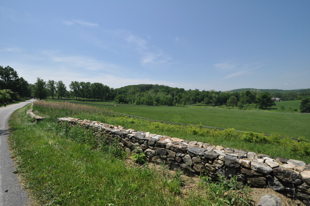 The Woodpile, a large multi-residence family estate at Croton Lake Road and Wood Road in Bedford Corners, New York.